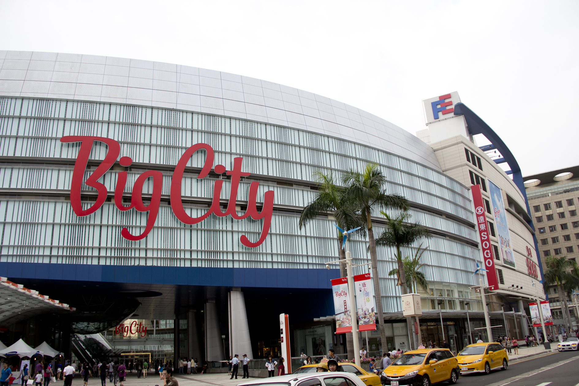 Exterior view of Big City